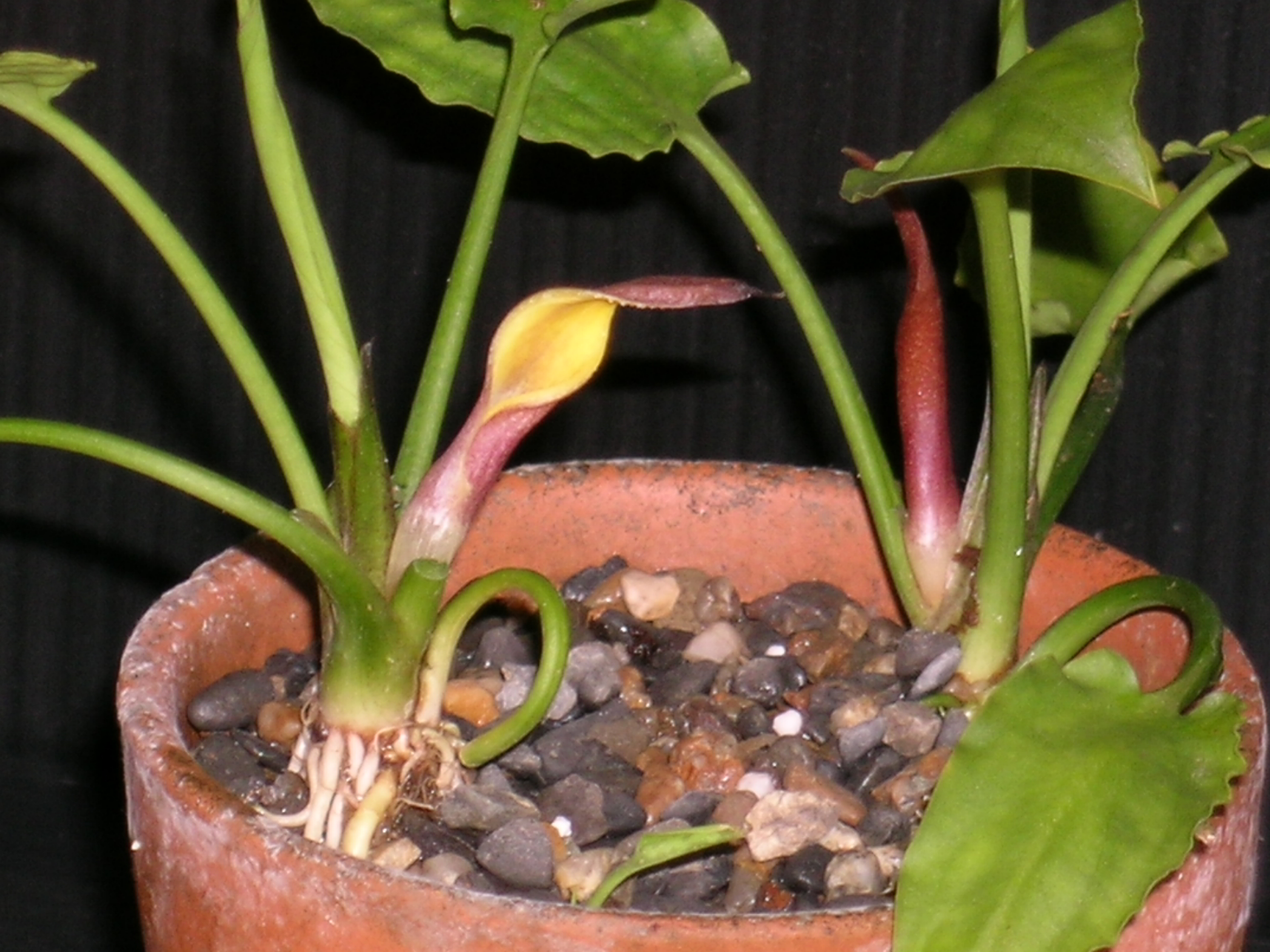 水上栽培のクリプトコリネの花（Flower of Cryptocoryne)。種類はポンテデフォリア（Cryptocoryne pontederiifolia）です。 It is one's private property.Take a photograph in my home. photo:S.Tanaka